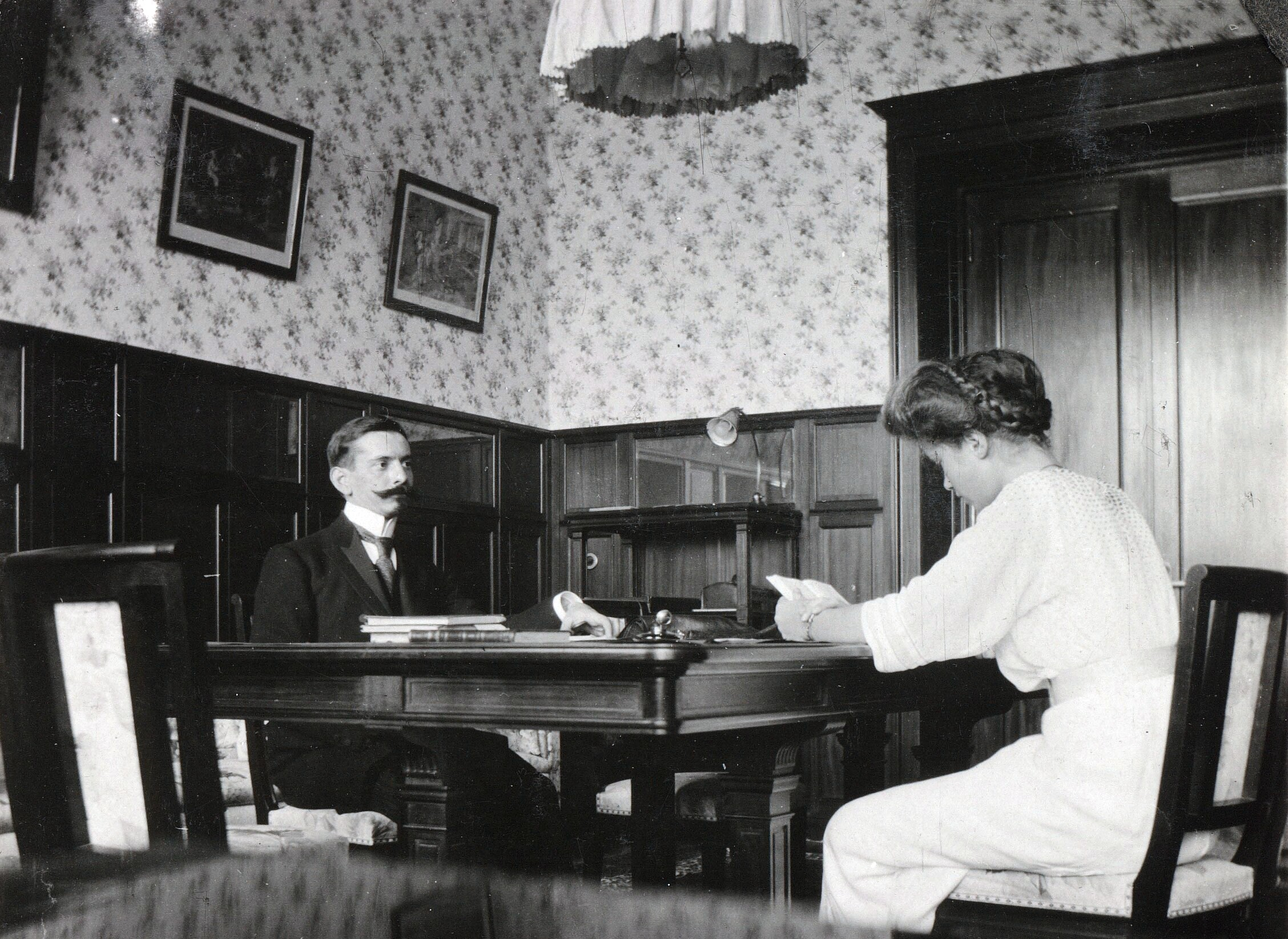 Pierre Gilliard and Olga Nikolaevna（1909）